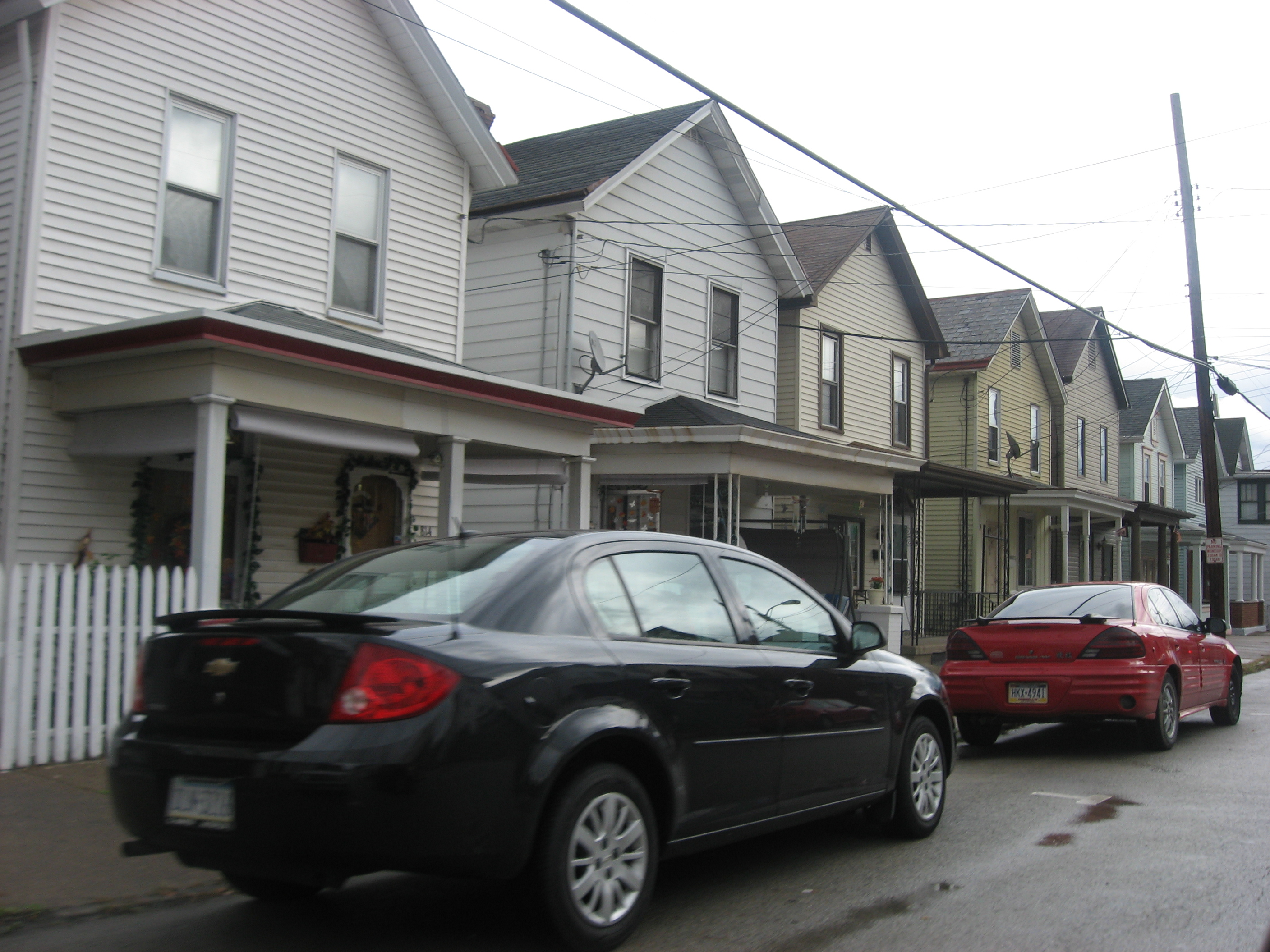 Houses in the 800 block of Fallowfield Avenue (Pennsylvania Route 88) in Charleroi, Pennsylvania, United States. Built in 1907, this is a typical residential neighborhood in Charleroi; it is part of the Charleroi Historic District, a historic district that is listed on the National Register of Historic Places.